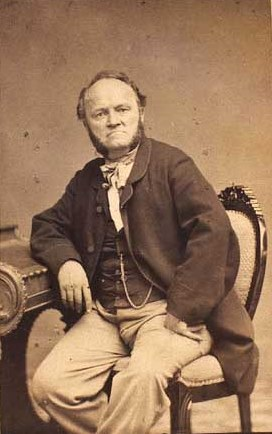 Self-portrait of Carl Christian Hansen, aka C.C. Hansen or C.Ch. Hansen (1809-1891), Danish photographer